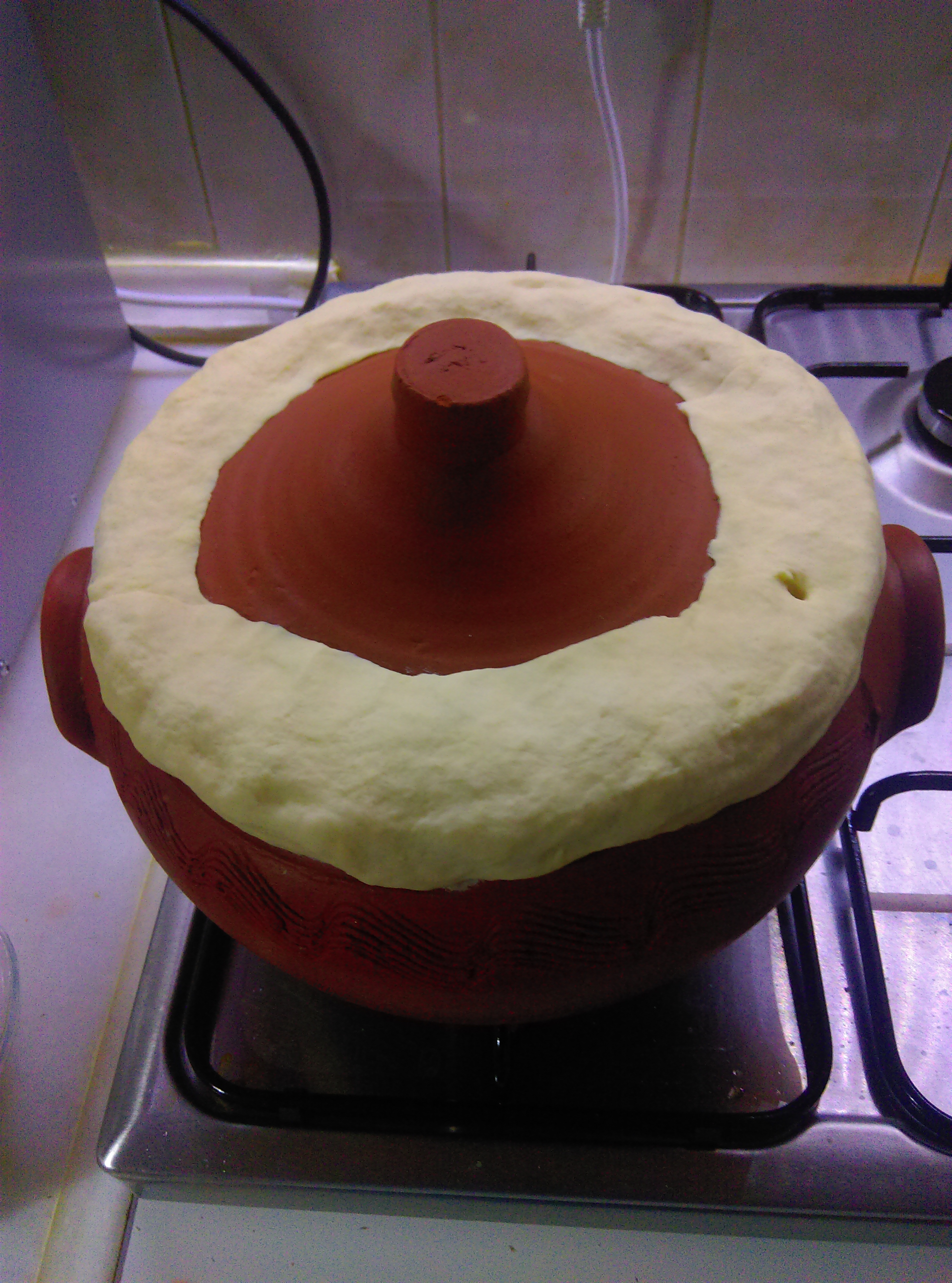 Güveç